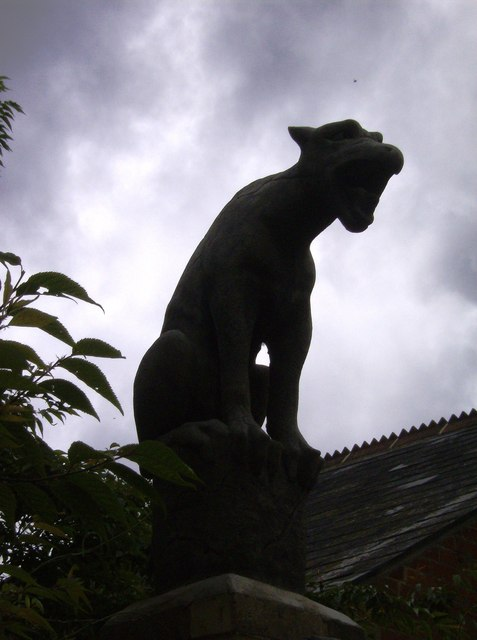 The beast of Knighton This huge panther was sitting on the roof. Actually it is only about 2 feet high, sitting on a gatepost some yards in front of the roof. And its made of stone.